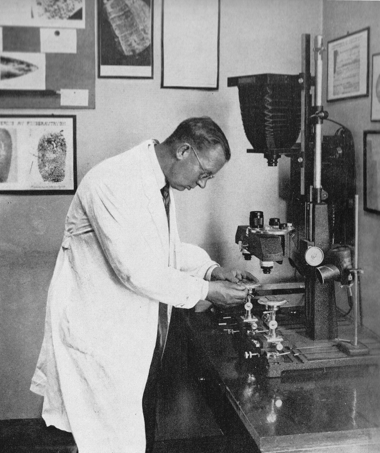 Swedish police officer and SOCO (Scenes of crime officer) John Berg at a comparison microscope at Centralbyrån för fingeravtryck (Central agency for fingerprints), Stockholm police force, 1935